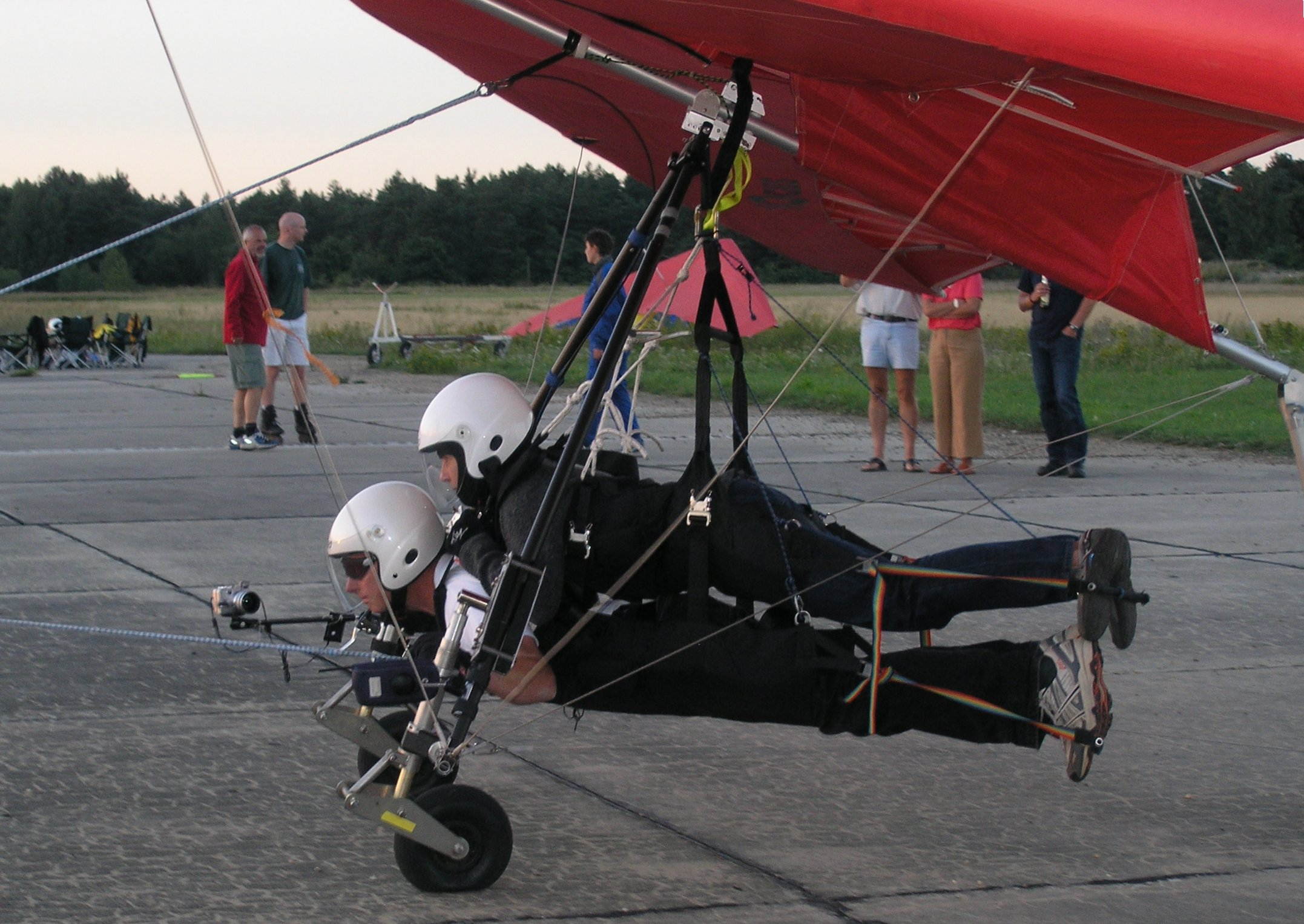 A hang glider with tandem harness, over/under style. Ready to tow. Date: august 2005 Location: Flugplatz Altes Lager, Germany Pilot: Andreas Becker, Flugschule Drachenfliegenlernen Photographer: Kai-Martin Knaak (Wiki Commons category: "Air sports")